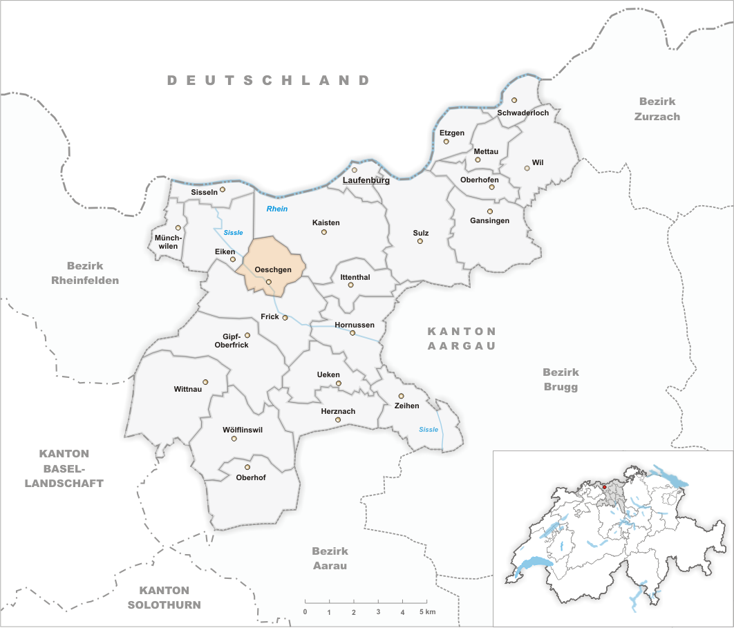 Municipality Oeschgen